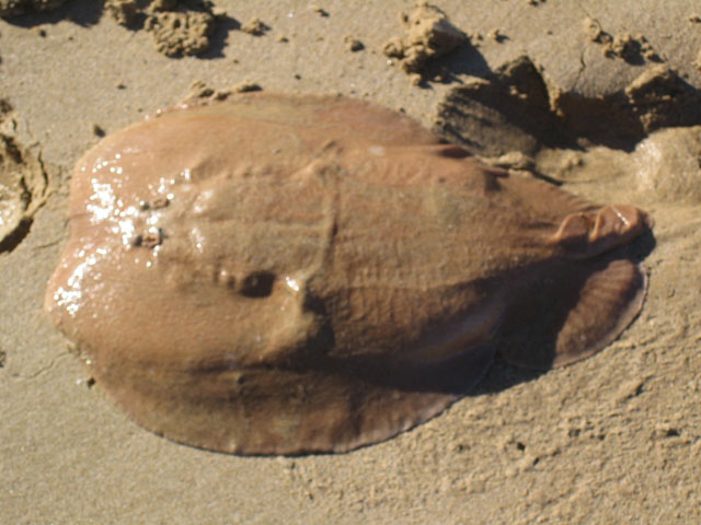 Coffin ray (Hypnos monopterygius)